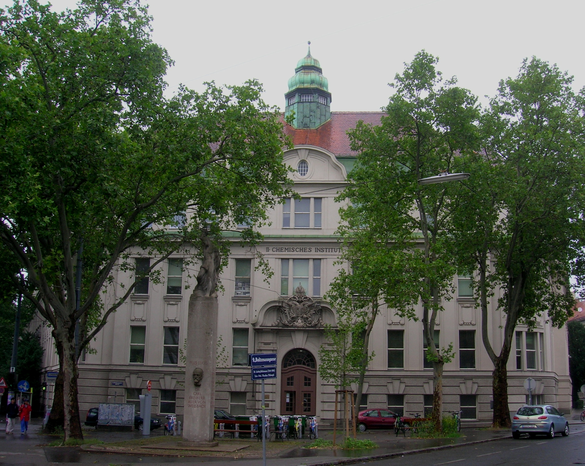 University of Vienna, faculty of chemistry, Währingerstraße 38, Vienna, Austria